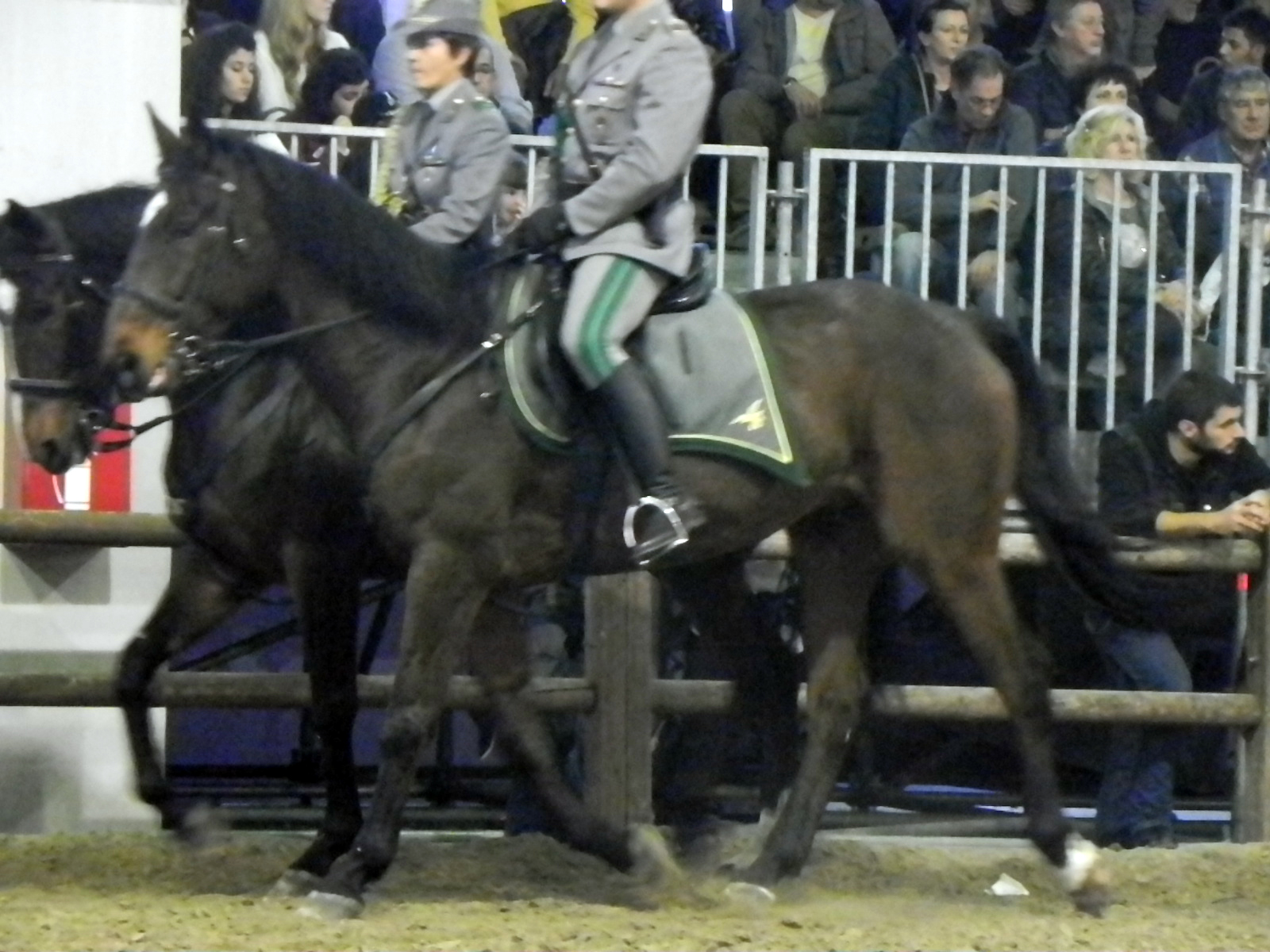 Persano of the Corpo Forestale dello Stato, photographed at Fieracavalli, Verona, Italy, on 9 November 2014.